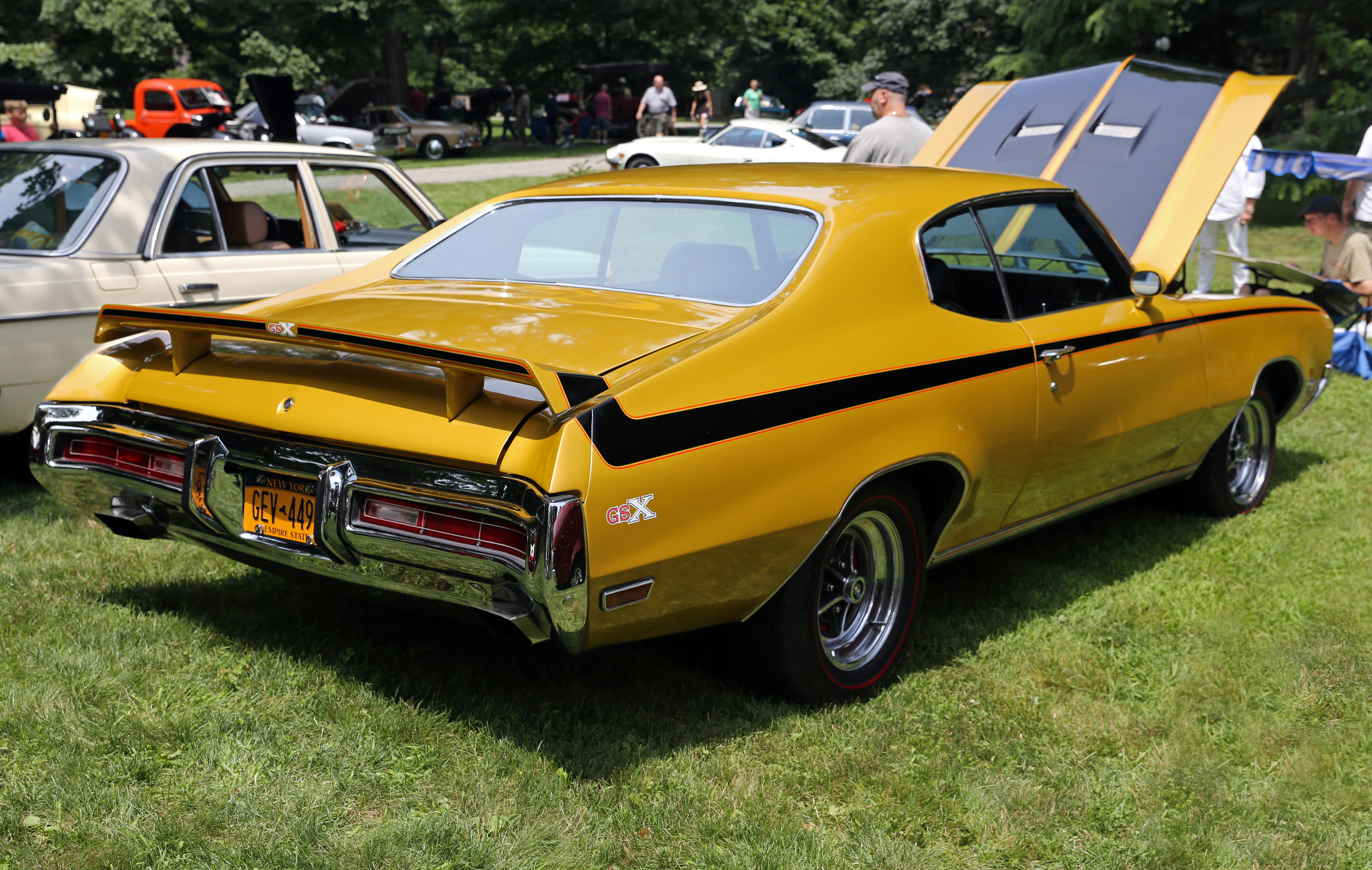 1971 Buick Gran Sport GSX.Has a 350 engine with Stage 1 stickers, not sure that such a motor was ever offered by Buick. This car is probably not genuine, as only 124 1971 GSXs were built.